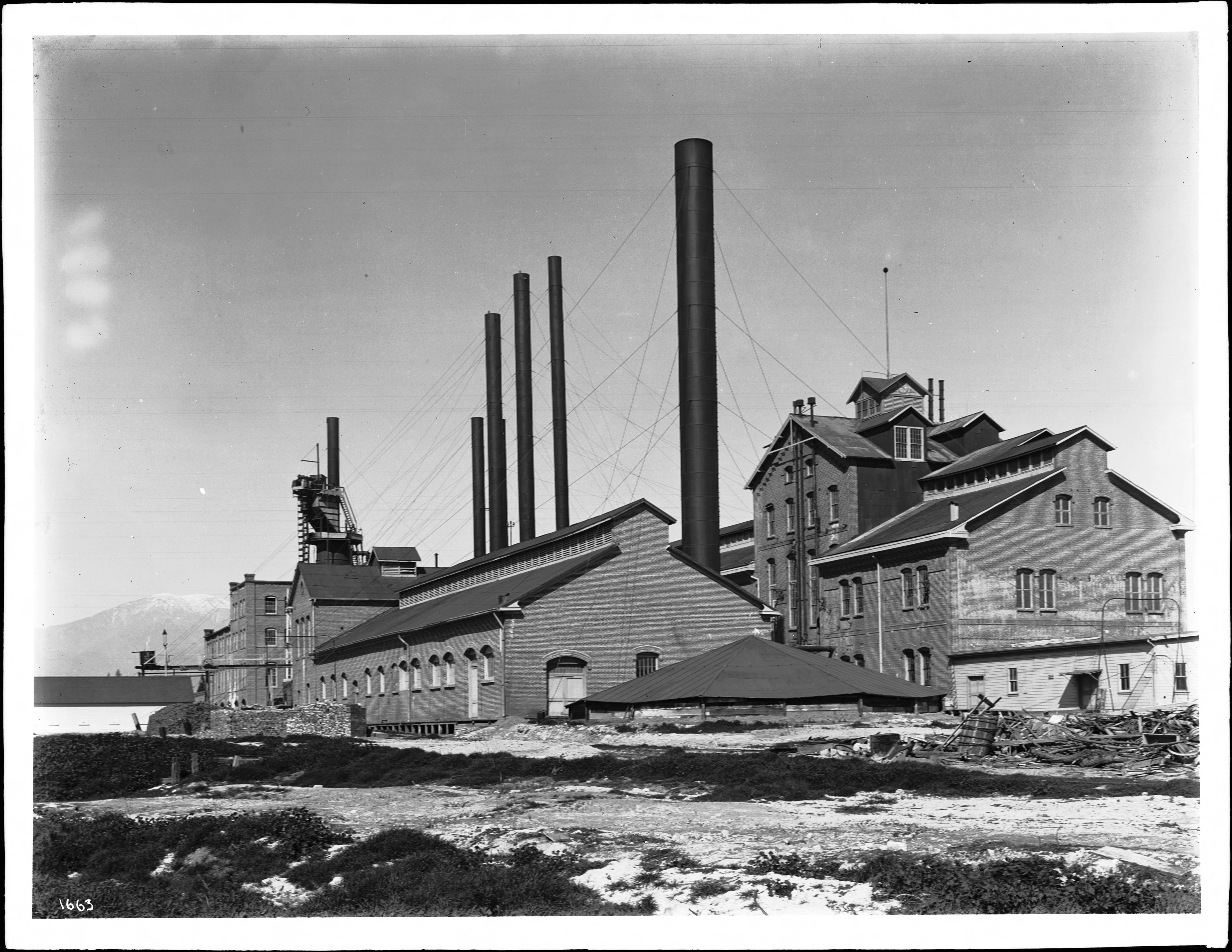 Sugar factory in Chino, California, ca.1906 Photograph of a sugar beet processing plant, Chino Valley, California, ca.1906. Guy wires stabilize 7 smokestacks rising from the multi-building complex. A pile of scrap (lumber) lies beside the building at right. Mount Baldy is visible in the distance at left. Call number: CHS-1663 Photographer: Rieder, M. Filename: CHS-1663 Coverage date: circa 1906 Part of collection: California Historical Society Collection, 1860-1960 Format: glass plate negatives Type: images Geographic subject (city or populated place): Chino Repository name: USC Libraries Special Collections Accession number: 1663 Microfiche number: 1-103-3 Archival file: chs_Volume63/CHS-1663.tiff Part of subcollection: Title Insurance and Trust, and C.C. Pierce Photography Collection, 1860-1960 Repository address: Doheny Memorial Library, Los Angeles, CA 90089-0189 Geographic subject (country): USA Format (aacr2): 1 photograph : photoprint, b&w ; 5 x7; 1 photograph : glass photonegative, b&w ; 17 x 22 cm. Rights: Digitally reproduced by the USC Digital Library; From the California Historical Society Collection at the University of Southern California Subject (adlf): industrial sites Project: USC Repository Contributing entity: California Historical Society Date created: circa 1906 Publisher (of the digital version): University of Southern California. Libraries Format (aat): photographs Geographic subject (state): California Subject (file heading): San Bernardino -- Chino; Agriculture -- Crops -- Beet sugar Legacy record ID: chs-m8330; USC-0-1-1-8462; USC-1-1-1-9187 Access conditions: Send requests to address or e-mail given. Phone (213) 821-2366; fax (213) 740-2343. Geographic subject (county): San Bernardino Subject (lcsh): Factories; Sugar beet industry